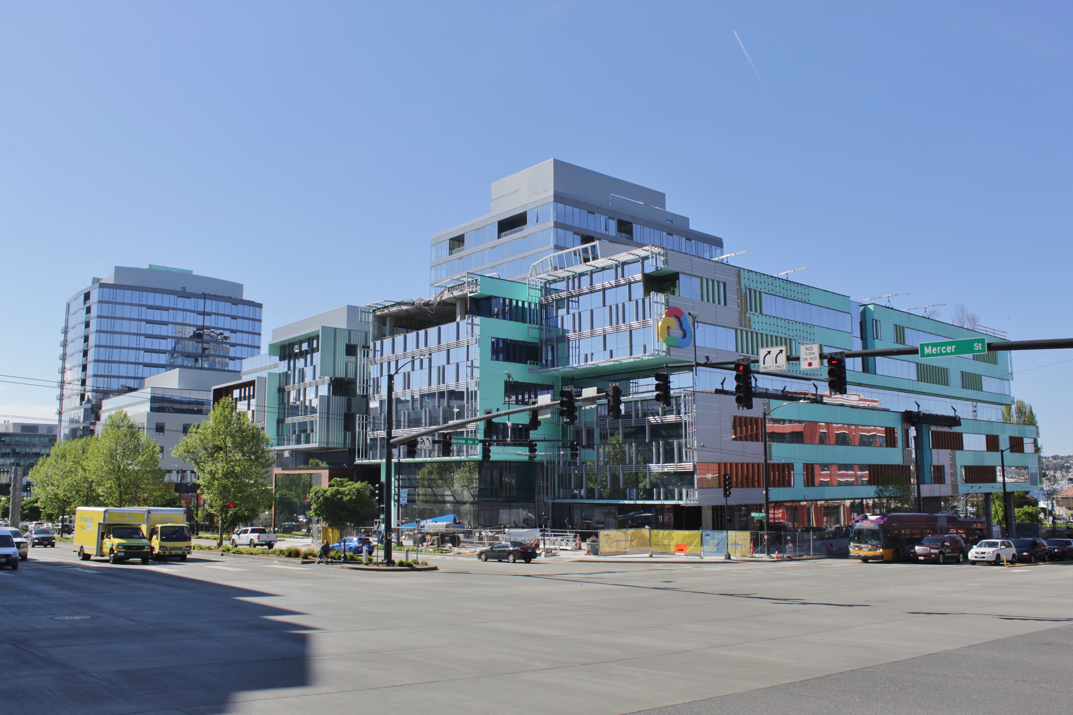 The Google office complex at Mercer Street and Fairview Avenue in the South Lake Union area of Seattle, following a fatal crane collapse on April 27, 2019.